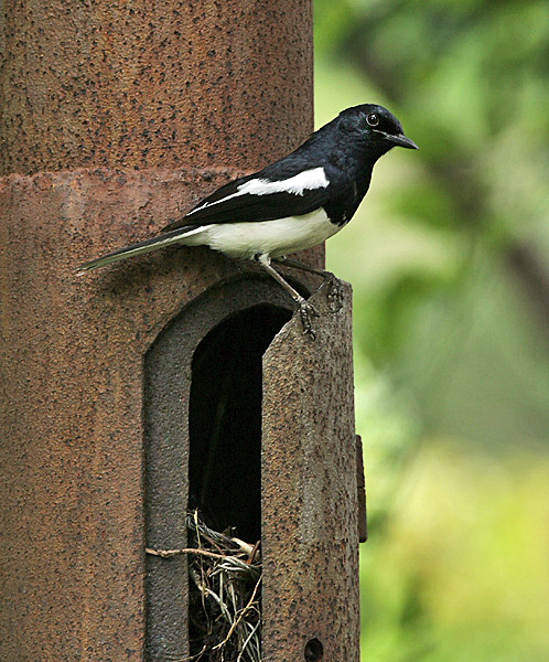 Oriental Magpie Robin (Copsychus saularis) in Kolkata, West Bengal, India.